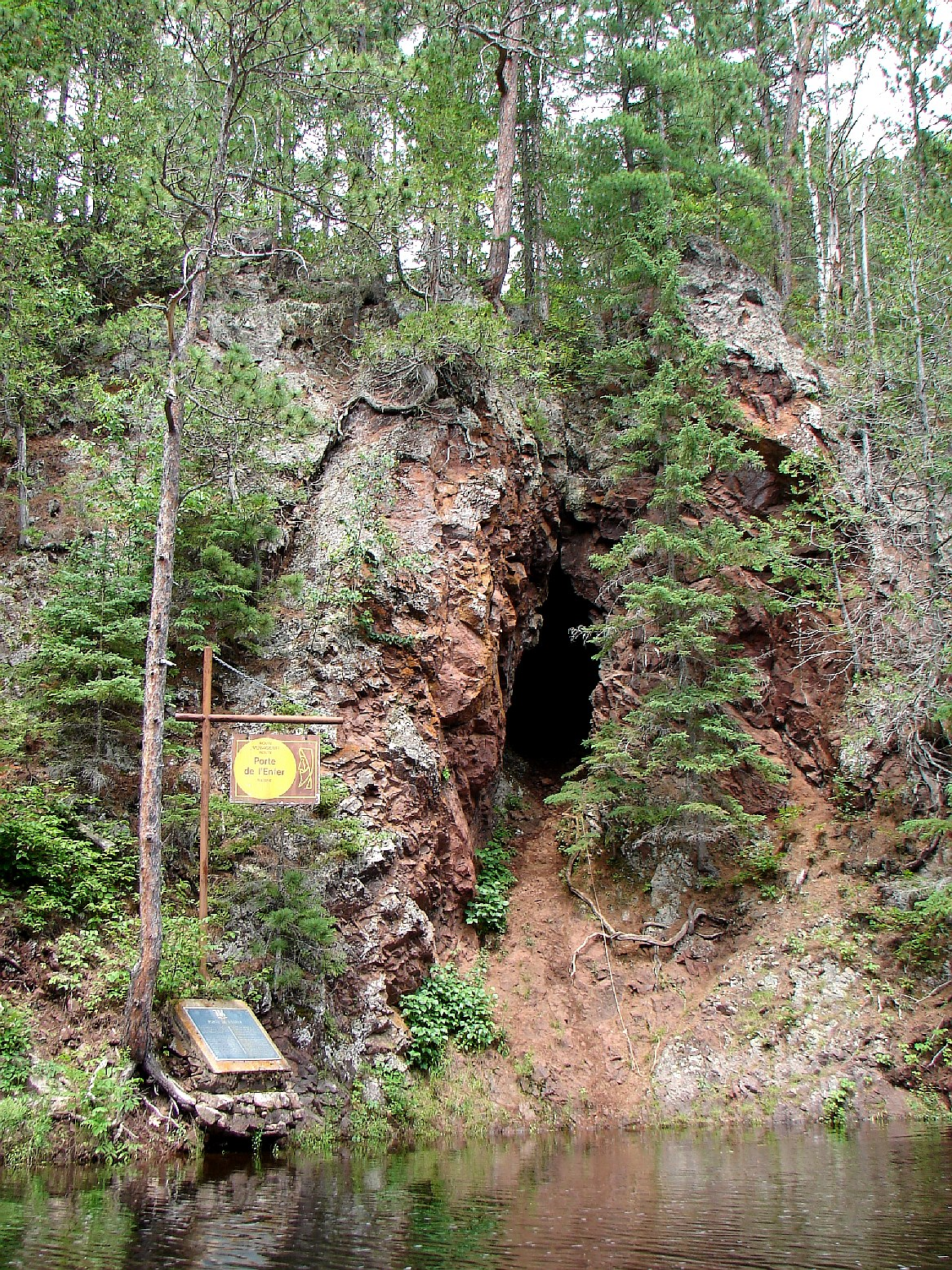 Hell's Gate along the Mattawa River, Ontario, Canada